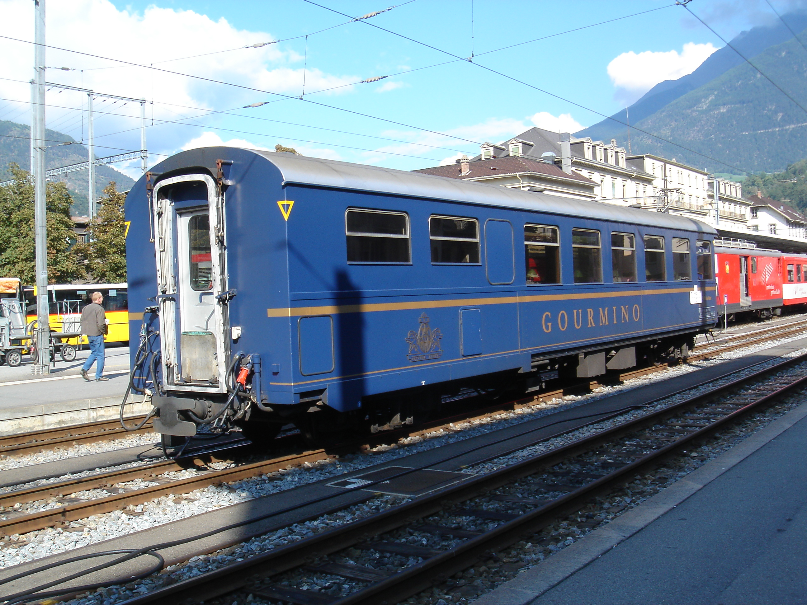 RhB dining car WR 3811 waits for the Glacier-Express from Zermatt